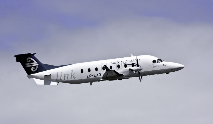 Air New Zealand Beechcraft 1900 taking off from Tauranga Airport. on a short 20 minute flight to Auckland International Airport.